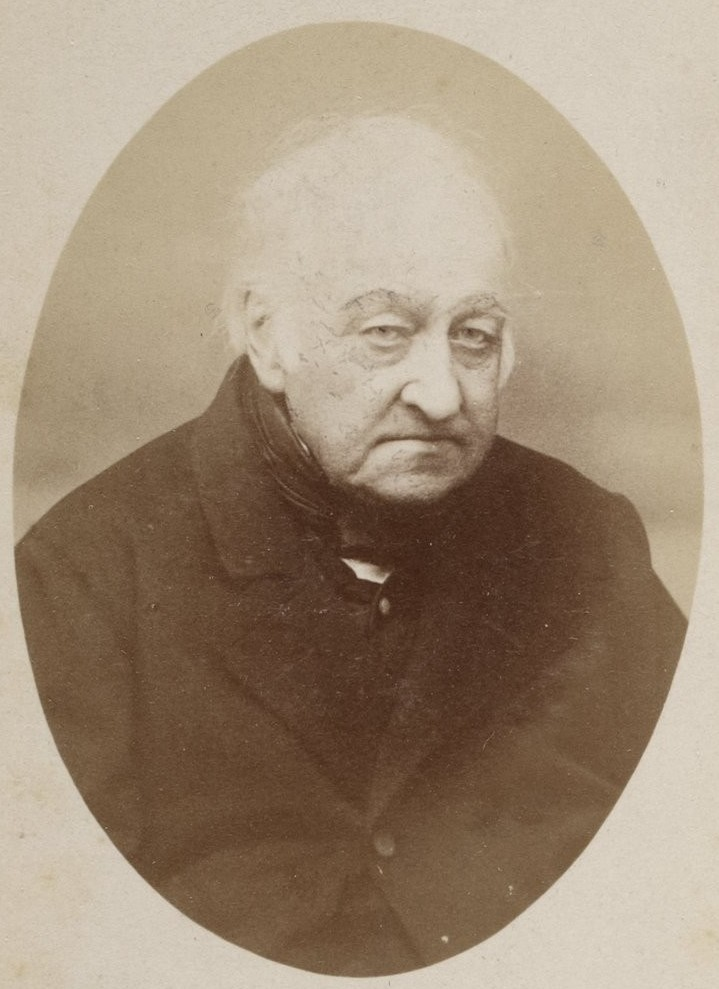 Ami Boué